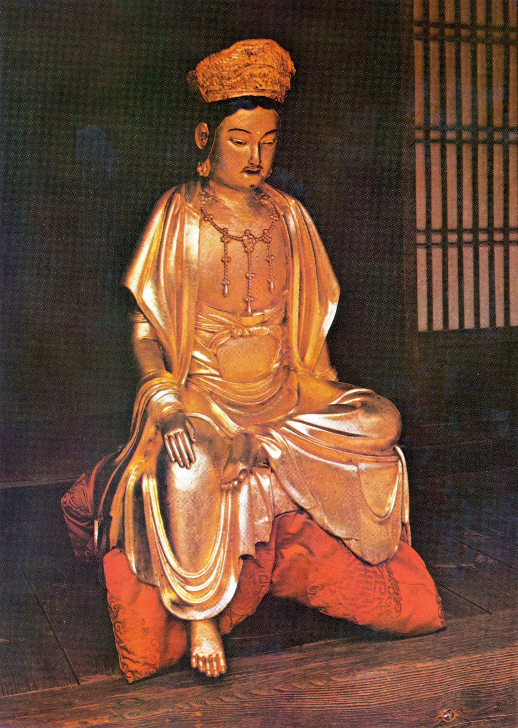 Seated Lacquered Bodhisattva in Half Lotus Position at Girimsa temple in Gyeongju, Korea